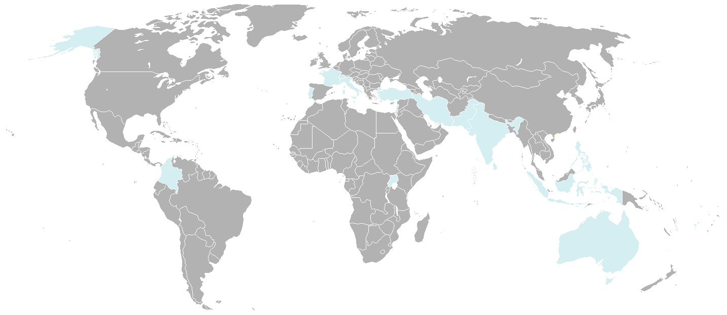 Overseas visits by Paul VI